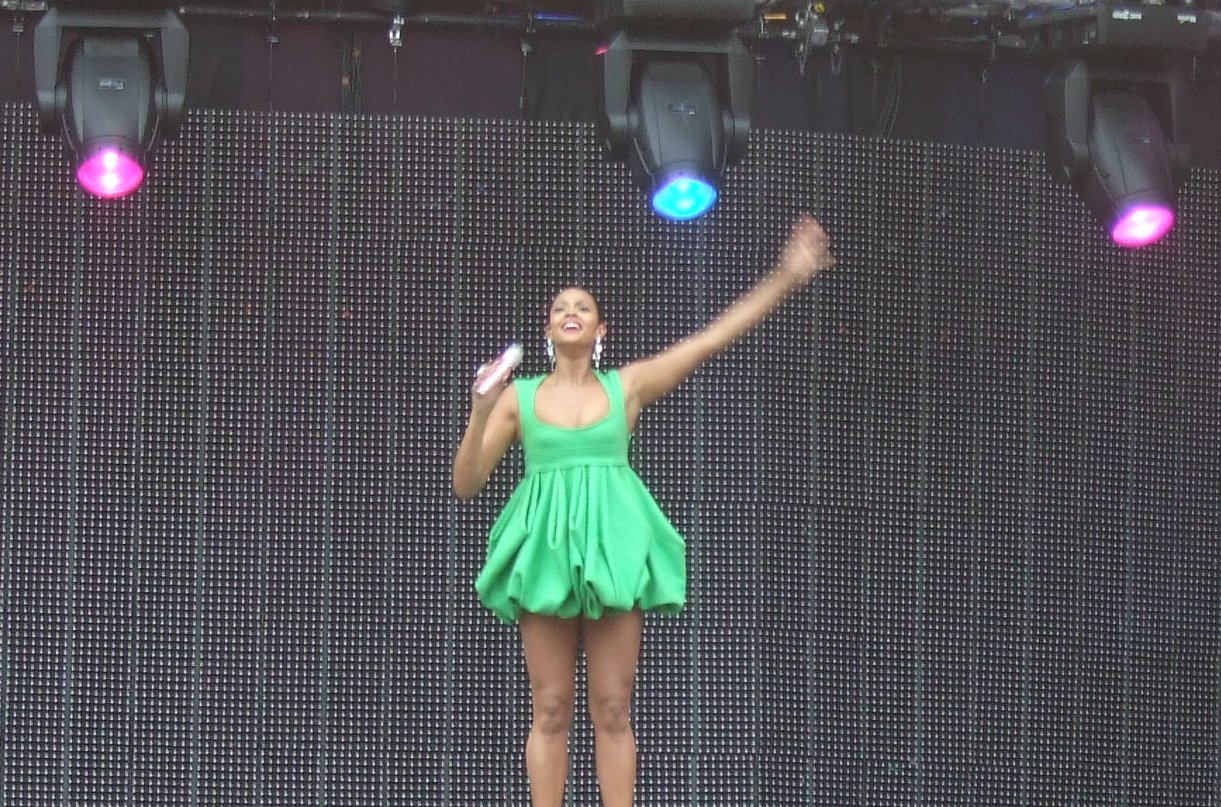 Alesha Dixon - Summertime Ball